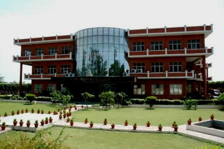 This is the main block of IMS ENGG COLLEGE GZB INDIA